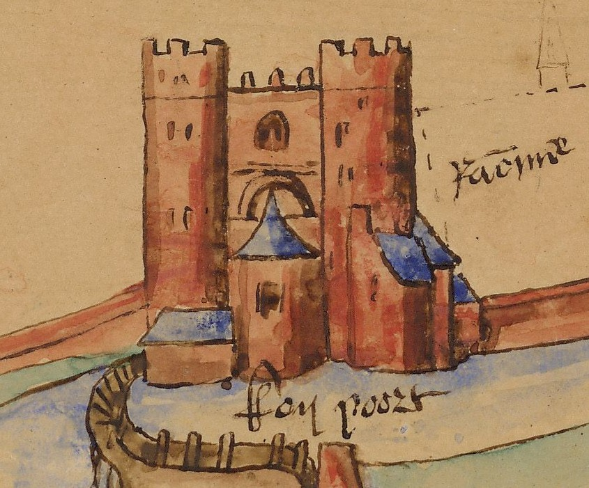 This file has been extracted from another file: Leiden map Sluyter.jpg Detail showing the Koepoort (city gate)